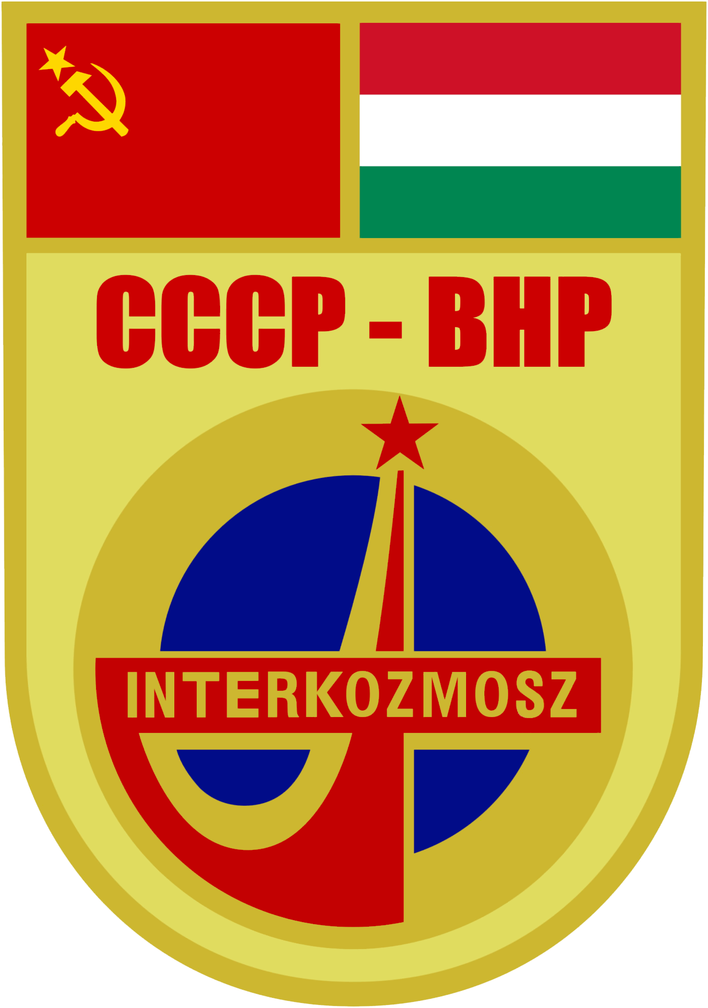 Soyuz 36 patch